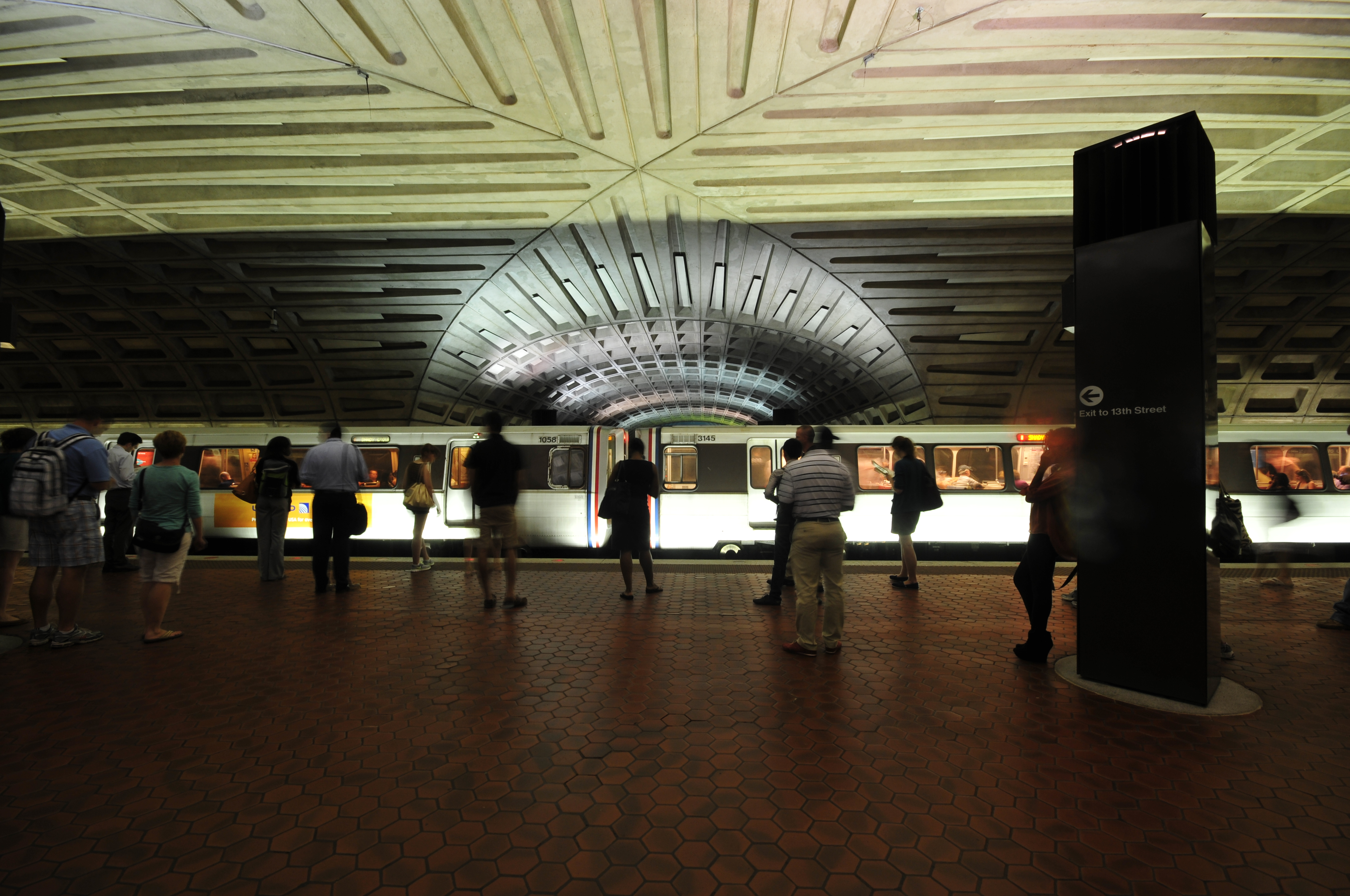 Washington Metro, Metro Center station, Washington, D.C.